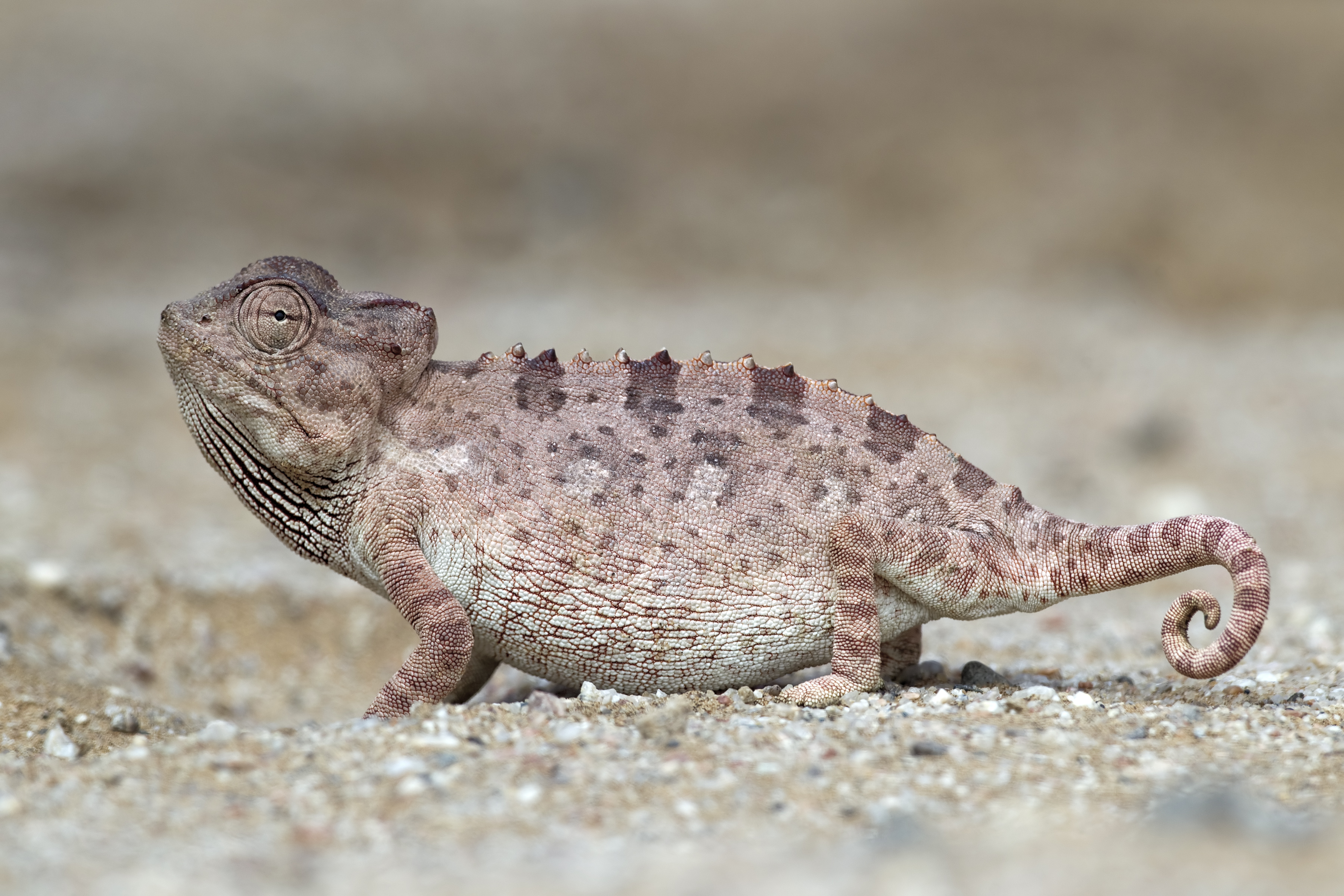 Namaqua chameleon near Swakopmund, Namibia